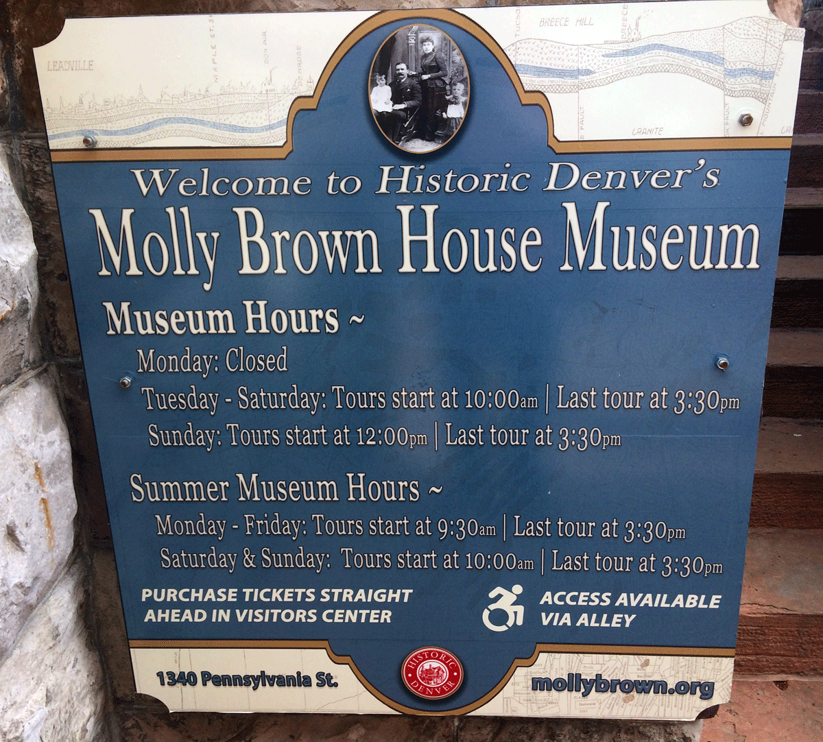 Molly Brown House welcome sign, Denver CO USA, April 2019, PNG file